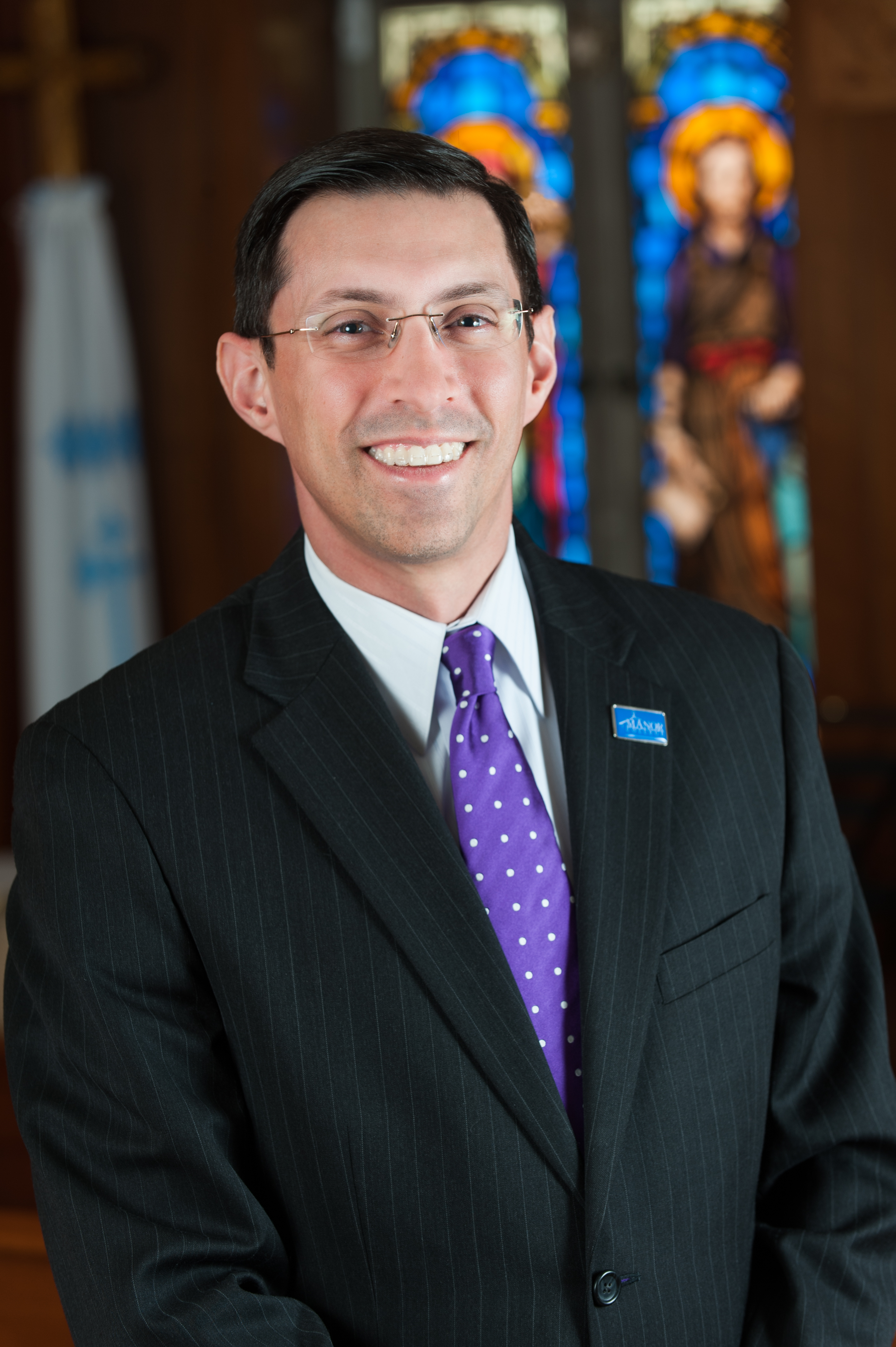 Jonathan Peri, Manor College's President